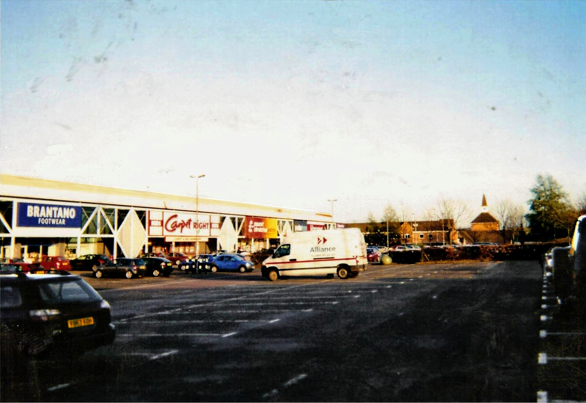 The Lockheed Drive retail estate, near the Beaumont industrial estate in Banbury. It has been a major employer since the 1980's.